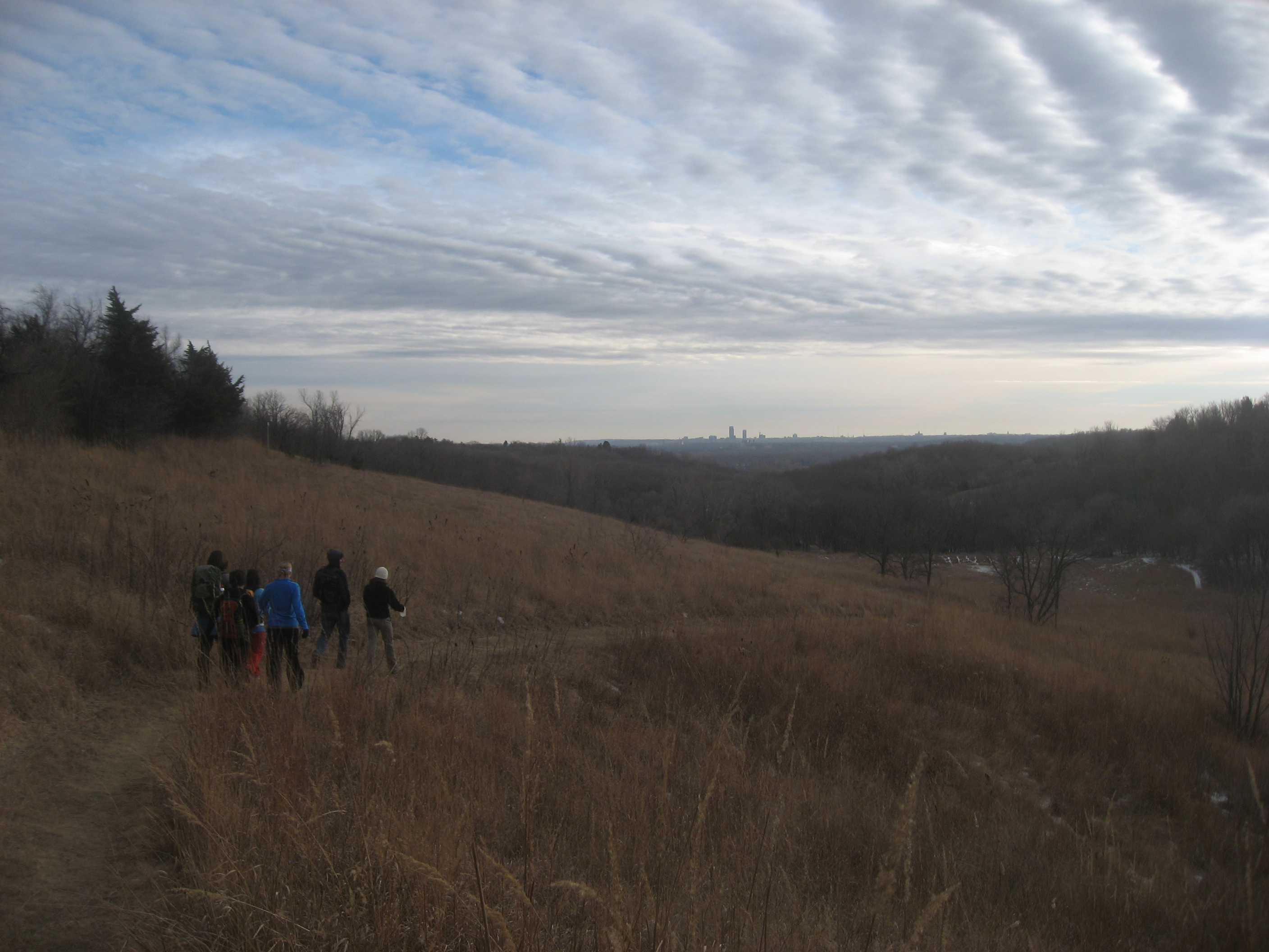 View from Gifford Trail looking south across Jonas Prairie. Downtown Omaha skyline is visible in the distance